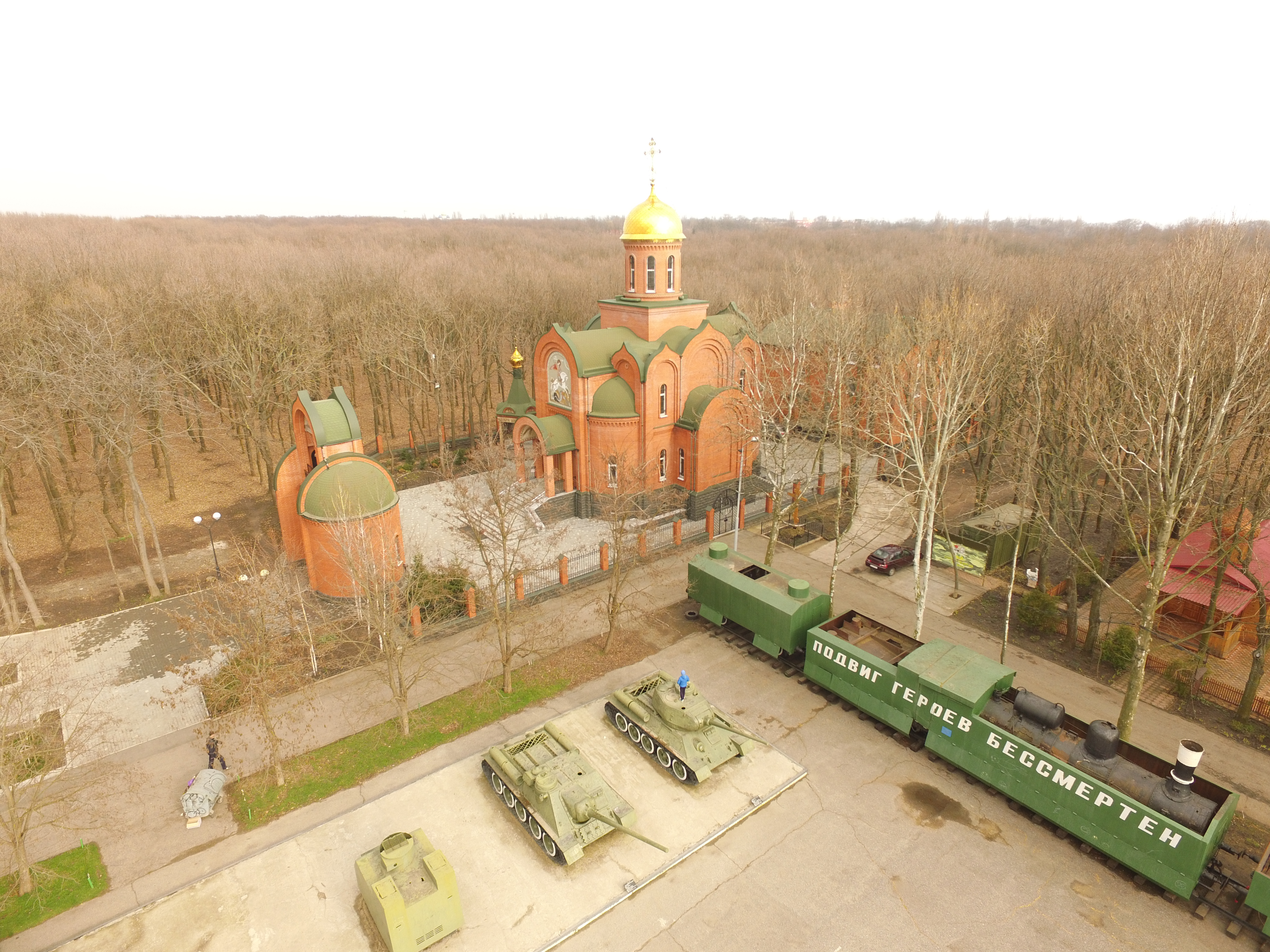 Heroic defence of Odessa memorial, aerial view